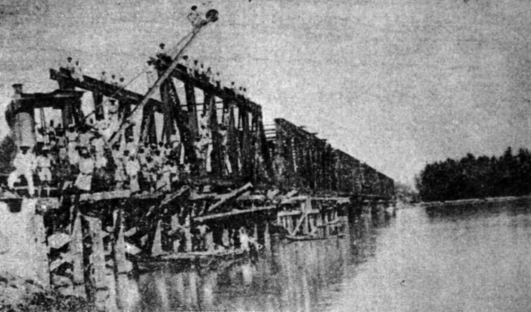 Kallady Bridge was under construction during 1923. It was completed in 1924